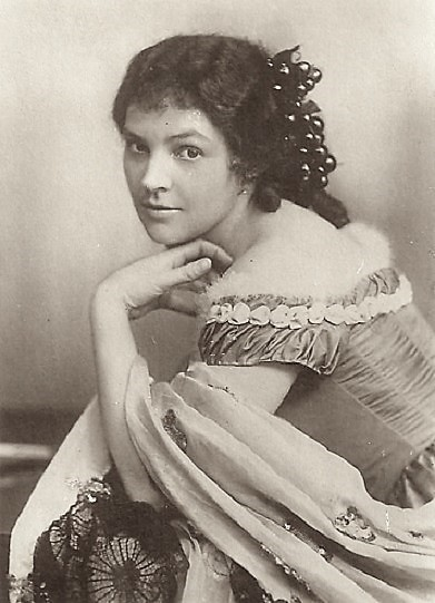 Leopoldine Konstantin